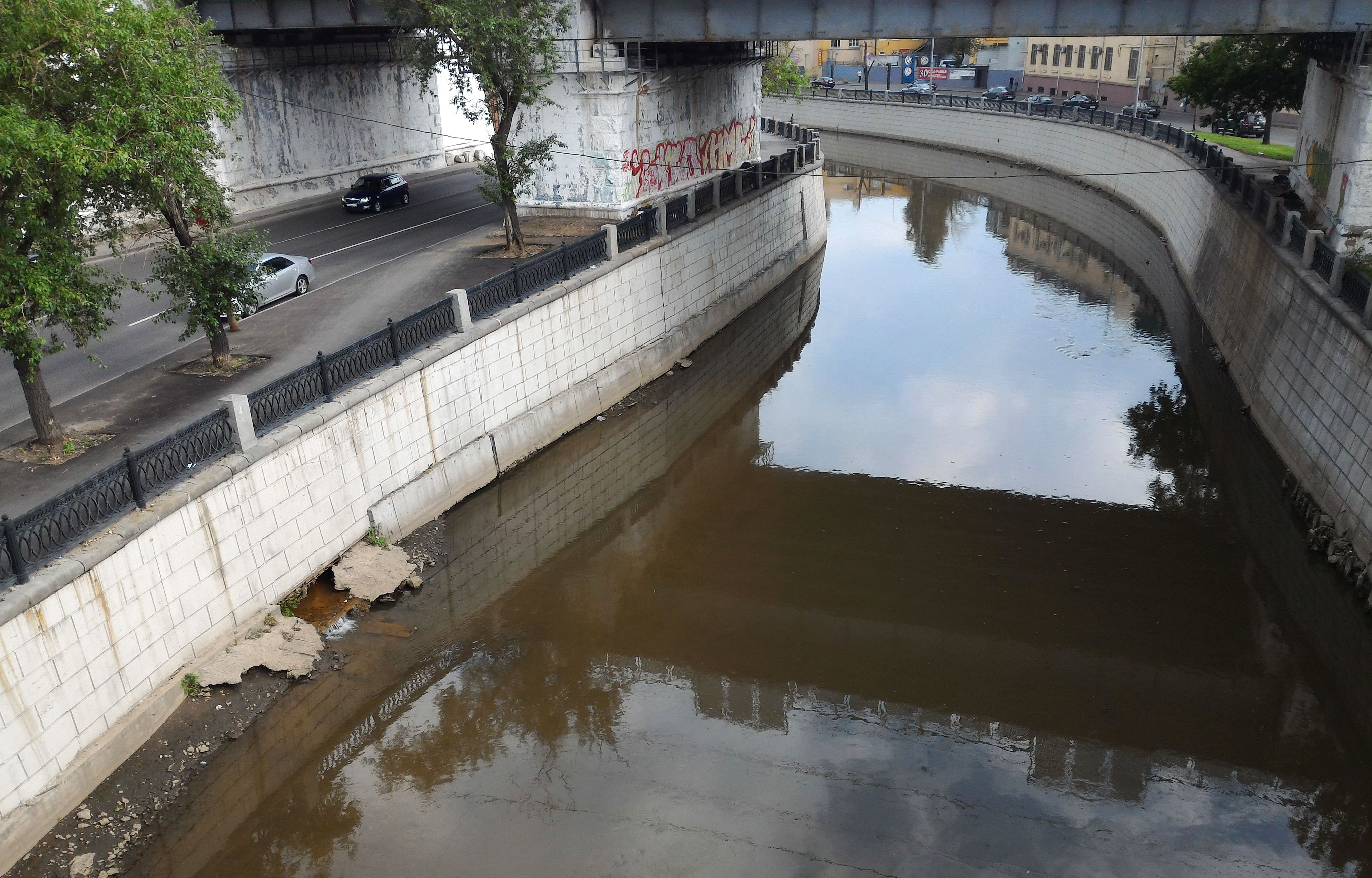 Семеновская (слева) и Рубцовская (справа) набережные р. Яуза Москва. Вид с Электрозаводского моста, вверху кадра железнодорожный мост Казанско-Рязанского направления